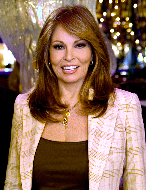 Raquel Welch at a Hudson Union Society event in April 2010.